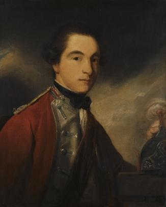 Charles Moore, 1st Marquess of Drogheda